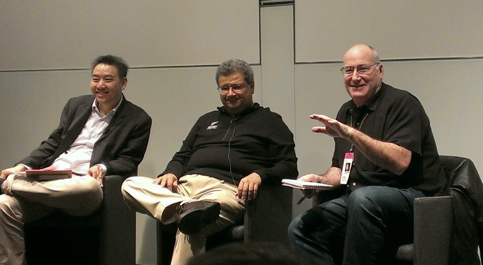 James Cham of Bloomberg Beta and Stanford professors Hayagreeva Rao and Bob Sutton at a book promotion event in San Francisco, March 2014.